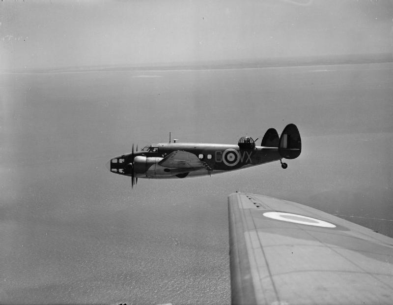 Royal Air Force Coastal Command, 1939-1945. Lockheed Hudson Mark I, P5120 'VX-C', of No 206 Squadron RAF based at Bircham Newton, Norfolk, on a patrol over the North Sea. This aircraft was written off in a landing accident at Bircham Newton on 20 June 1940.